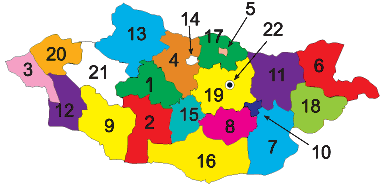 Numbered aimags (provinces) of Mongolia. Arkhangai Bayankhongor Bayan-Ölgii Bulgan Darkhan-Uul Dornod Dornogovi Dundgovi Govi-Altai Govisümber Khentii Khovd Khövsgöl Orkhon Övörkhangai Ömnögovi Selenge Sükhbaatar Töv Uvs Zavkhan Ulan Bator